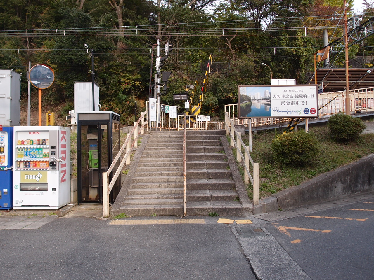 Eizan Electric Railway, Kyoto, Japan.